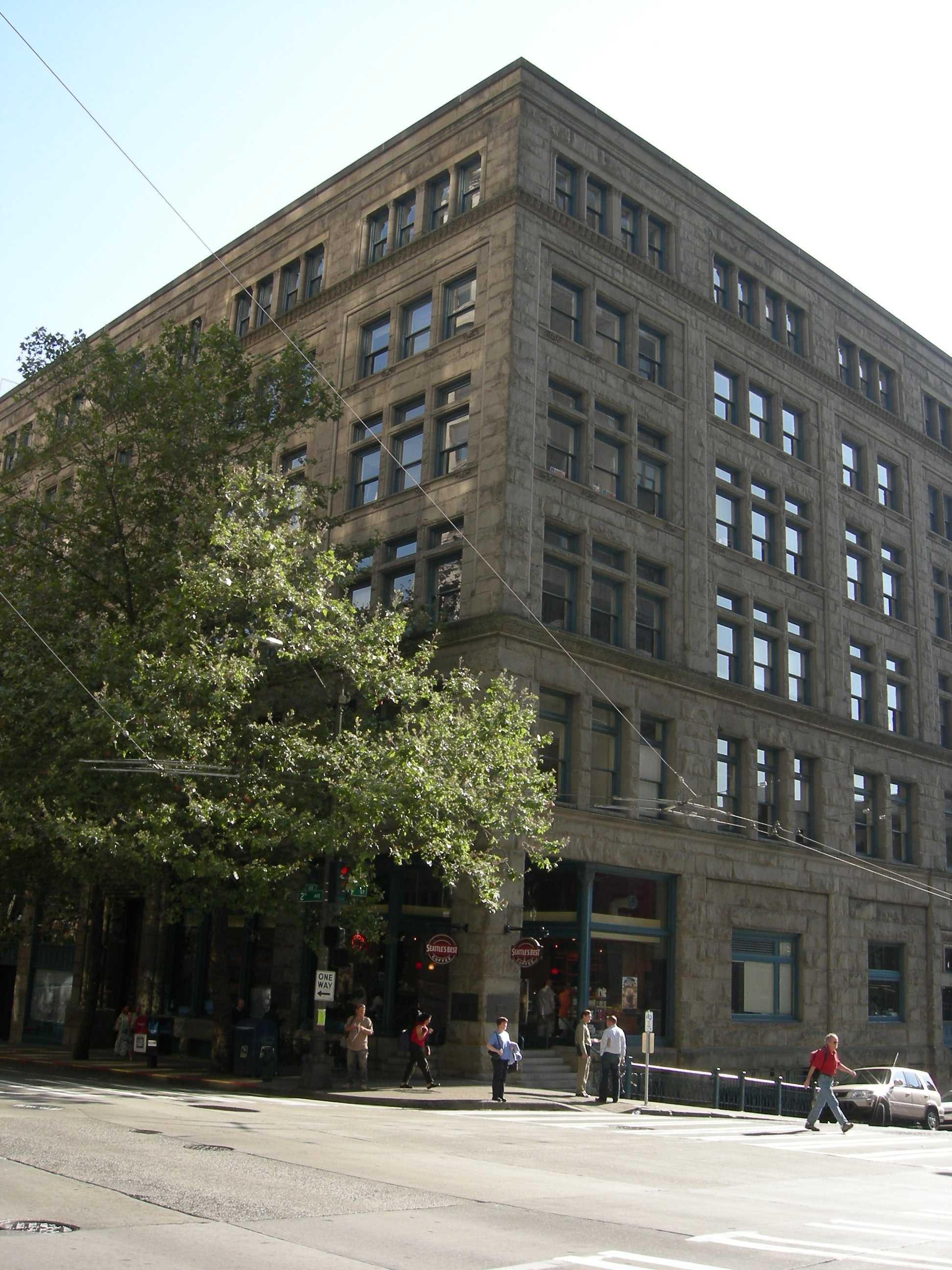 623 Second Avenue, Seattle, Washington, USA. The building is now known as the Broderick Building; it was at one time the Bailey Building.